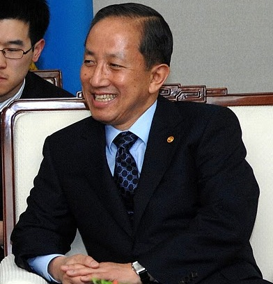 South Korea 42nd Minister of National Defense Kim Tae-young.